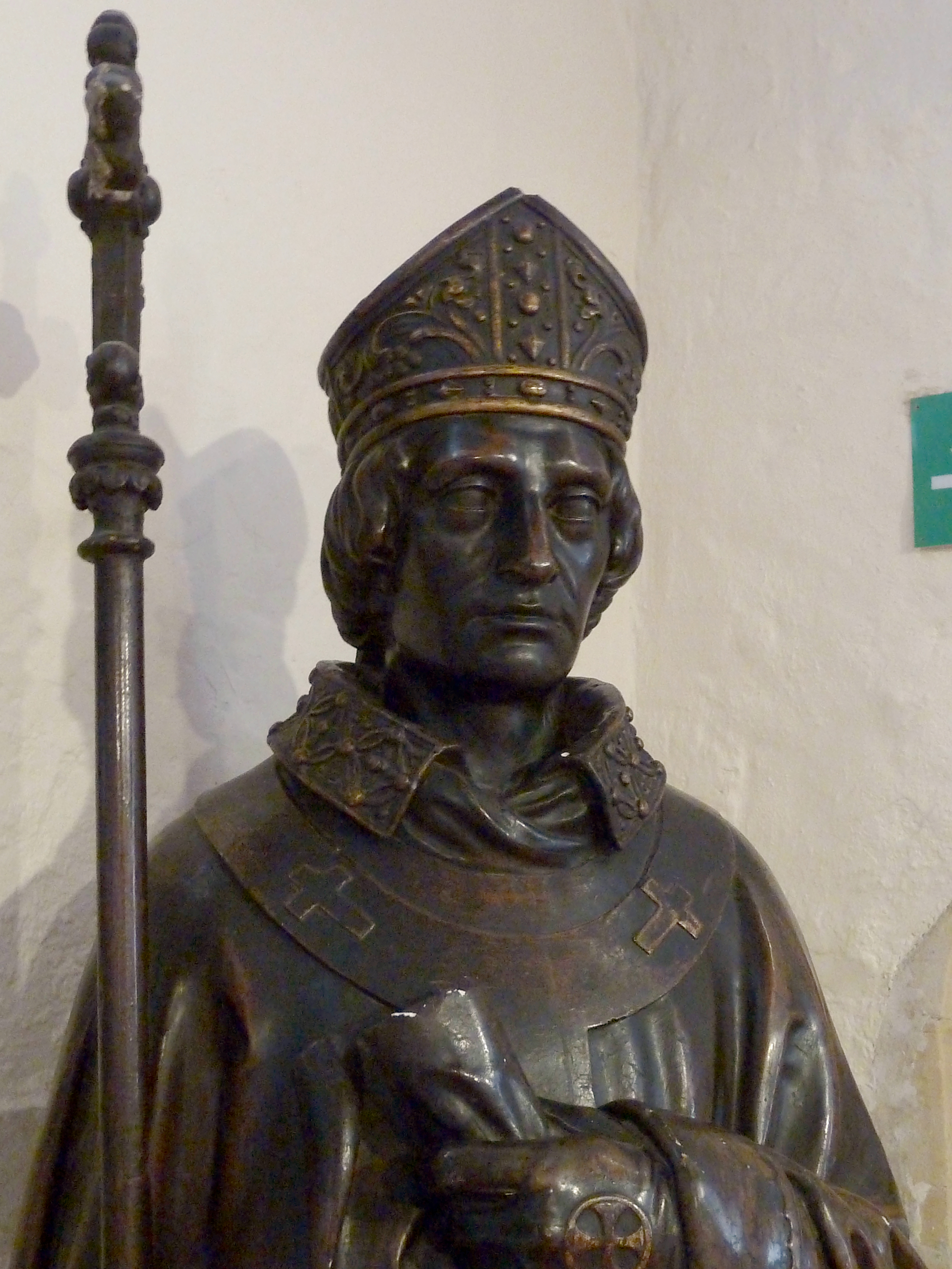 Plaster maquette of Stephen Langton by John Thomas (sculptor). One of 17 maquettes for life-sized bronzes representing the signatories of the Magna Carta. The bronzes decorate the walls of the Lords Chamber at Westminster Palace, London. As of 2013 this plaster maquette is in the Canterbury Heritage Museum, and the rest are unavailable to the public in Westgate Towers, Canterbury. Its original label says "Stephen Langton by John Thomas".